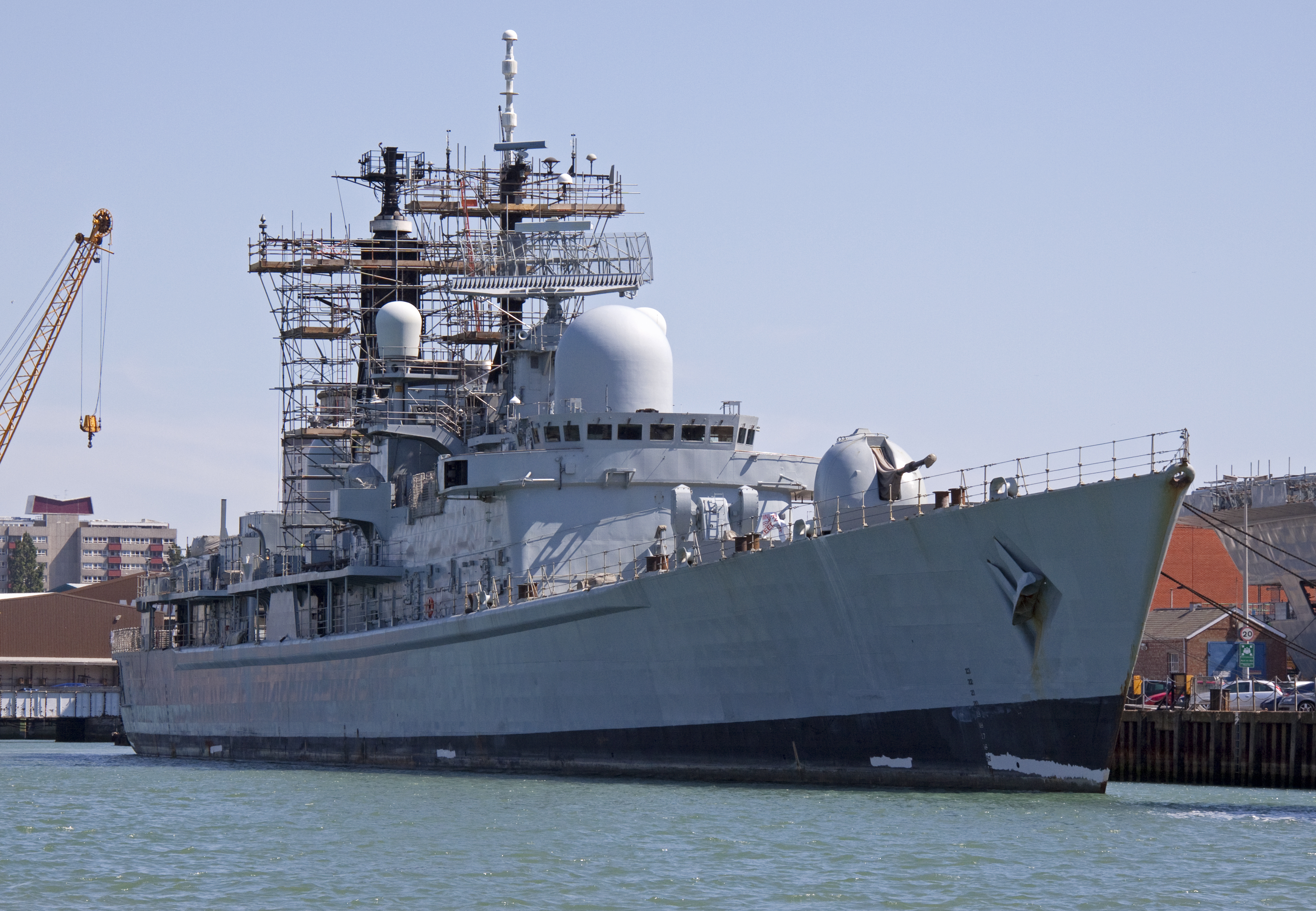 HMS Manchester being decommissioned at Portsmouth May 2011 HMS Manchester was a Type 42 destroyer in the 5th Destroyer Squadron of the Royal Navy. She was laid down in 1978 at Vickers Shipbuilding and Engineering, launched in 1980, commissioned in 1982, and decommissioned on 24 February 2011.